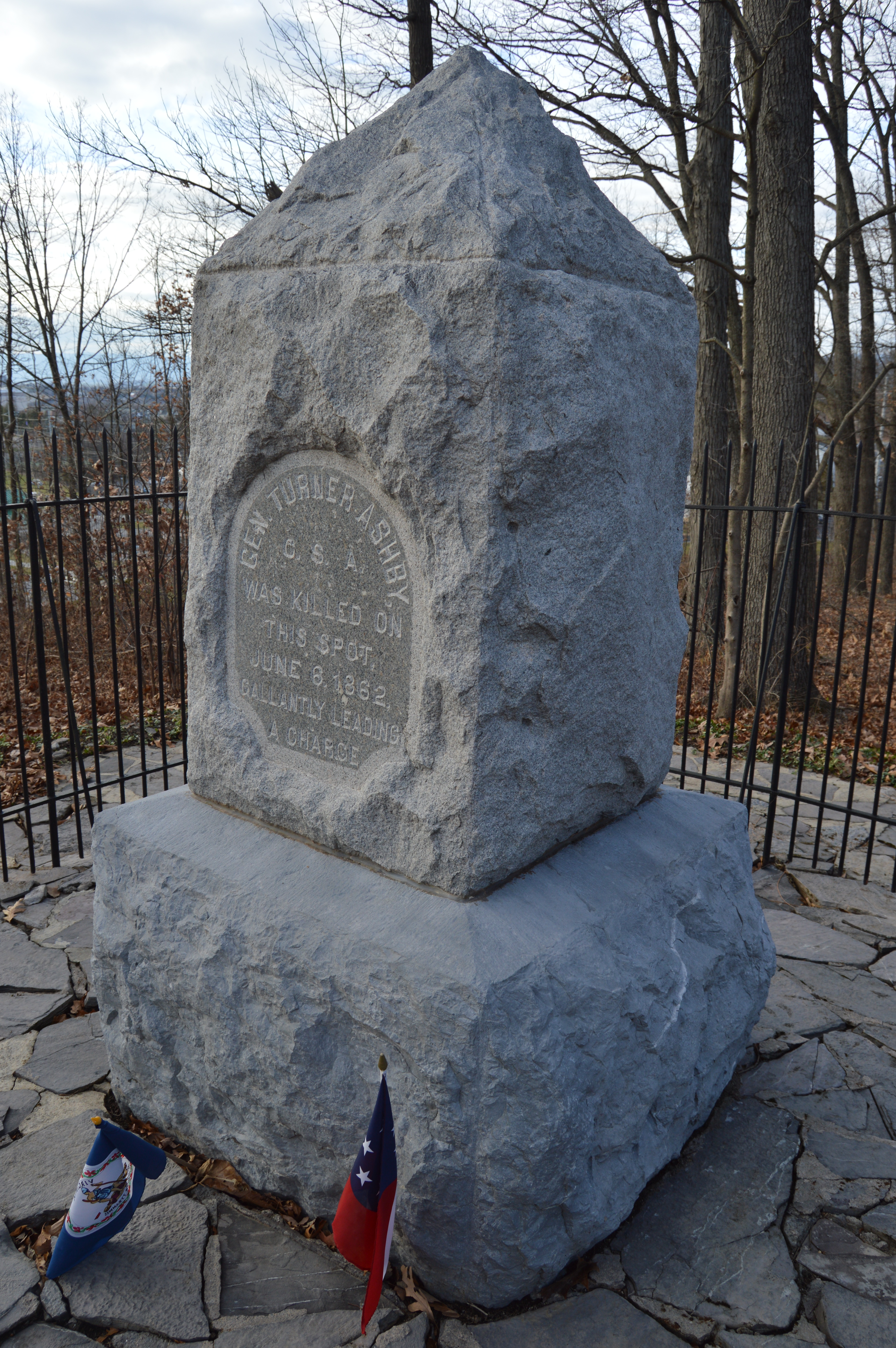 Overview of the Turner Ashby Monument, located at the end of Turner Ashby Lane in Harrisonburg, Virginia, United States. Mouse over the image for a transcript of the incription. Placed in 1898, it is listed on the National Register of Historic Places.